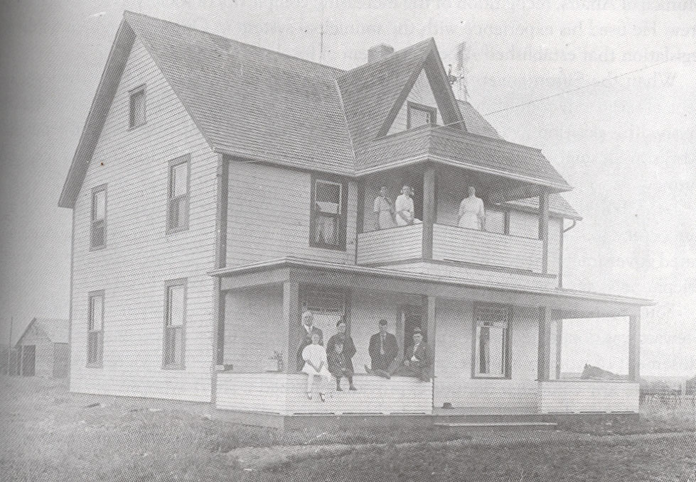 Charles Stewart's farm house in Killam, Alberta. Stewart himself is standing lower left.